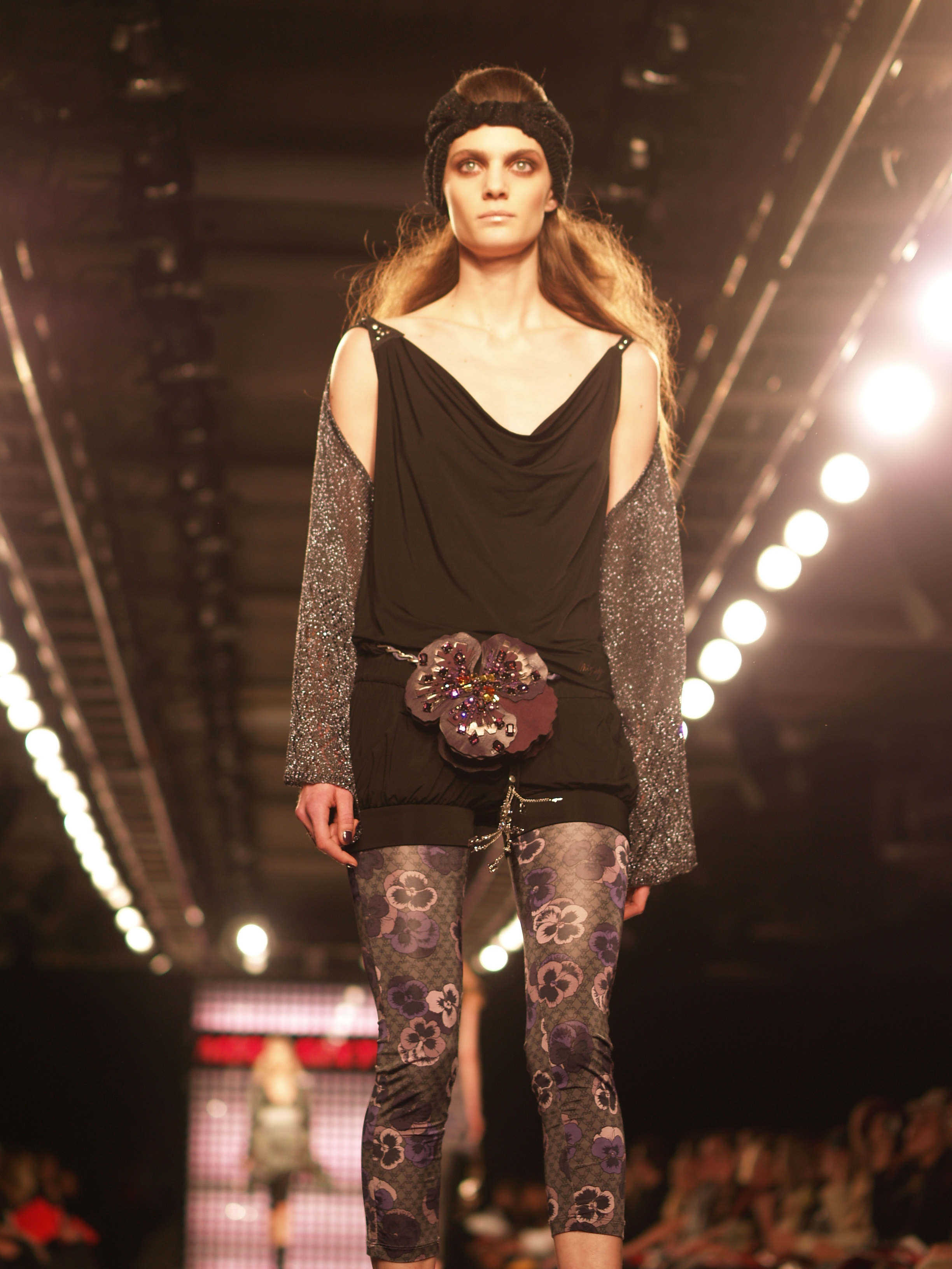 Martina Perez modeling for Miss Sixty, Fall 2007 New York Fashion Week.